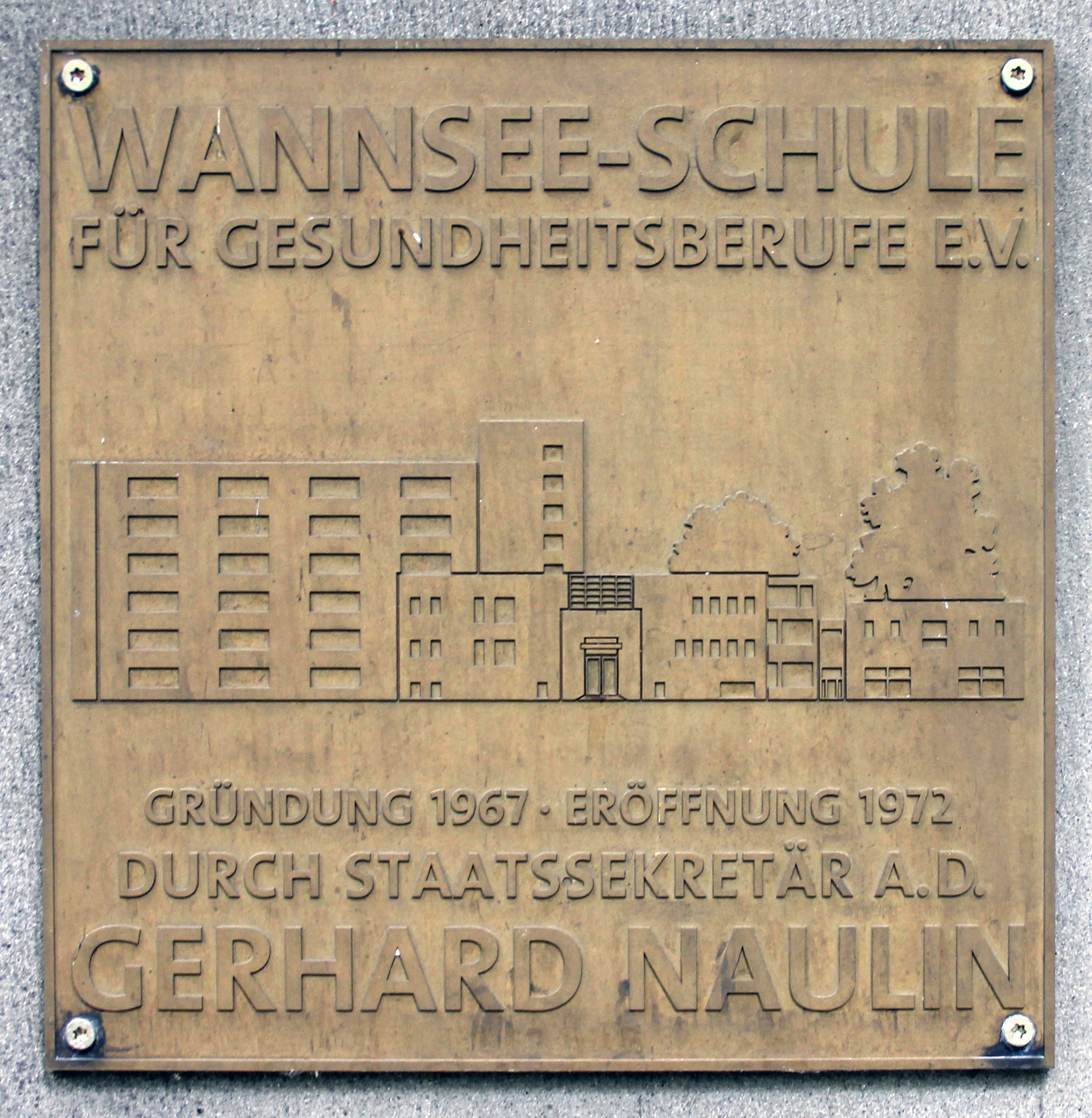 Memorial plaque, Wannsee-Schule, Zum Heckeshorn 36, Berlin-Wannsee, Deutschland